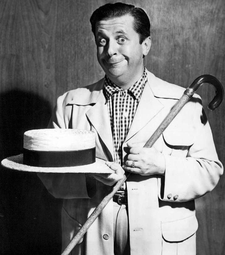 Publicity photo of Morey Amsterdam from the television program Battle of the Ages.